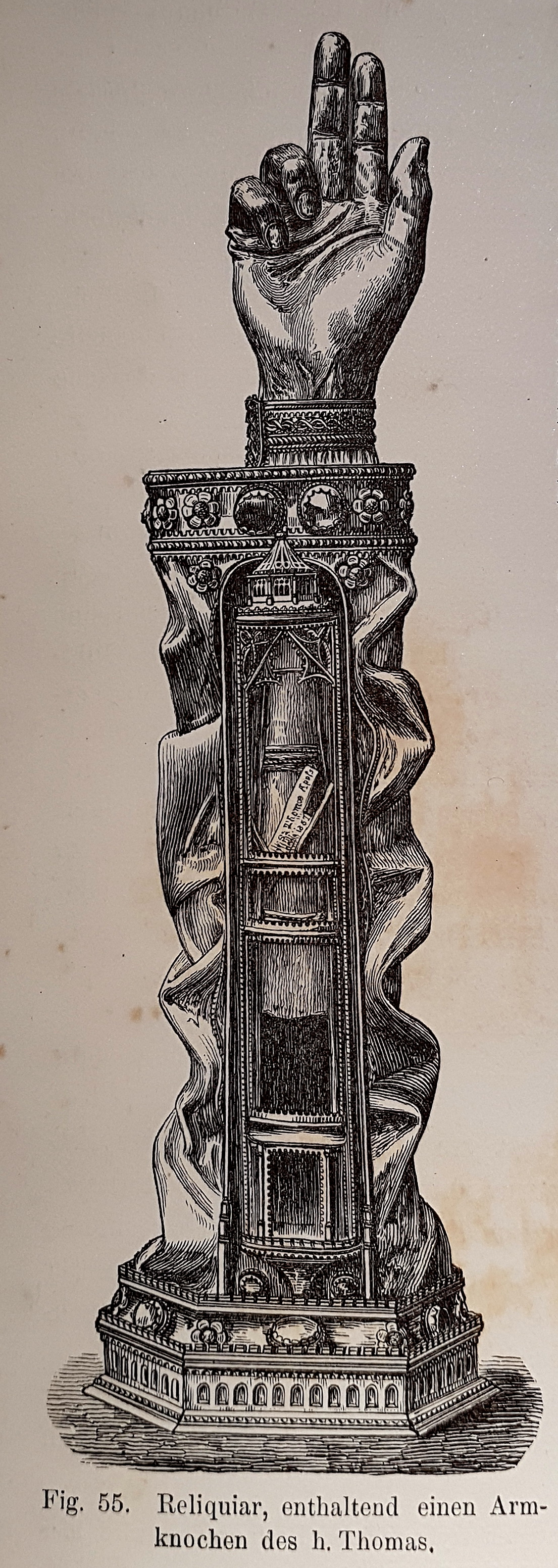 Arm reliquary of Saint Thomas (silver, 15th c.) in the Treasury of the Basilica of Saint Servatius in Maastricht, the Netherlands. Printed in the first catalogue of the treasury, published by Bock & Willemsen in 1872.